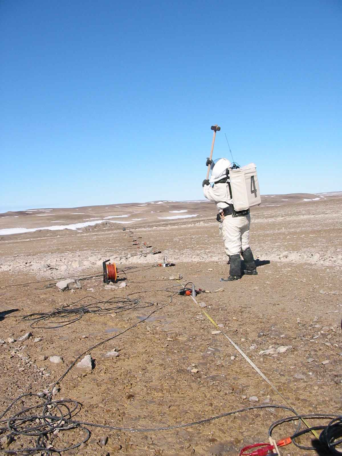 Geologist Katy Quinn uses a sledge hammer to generate subsurface signals which will be detected by a geophone on Haynes Ridge. This was near the location of the Flashline Mars Arctic Research Station on July 12, 2001.